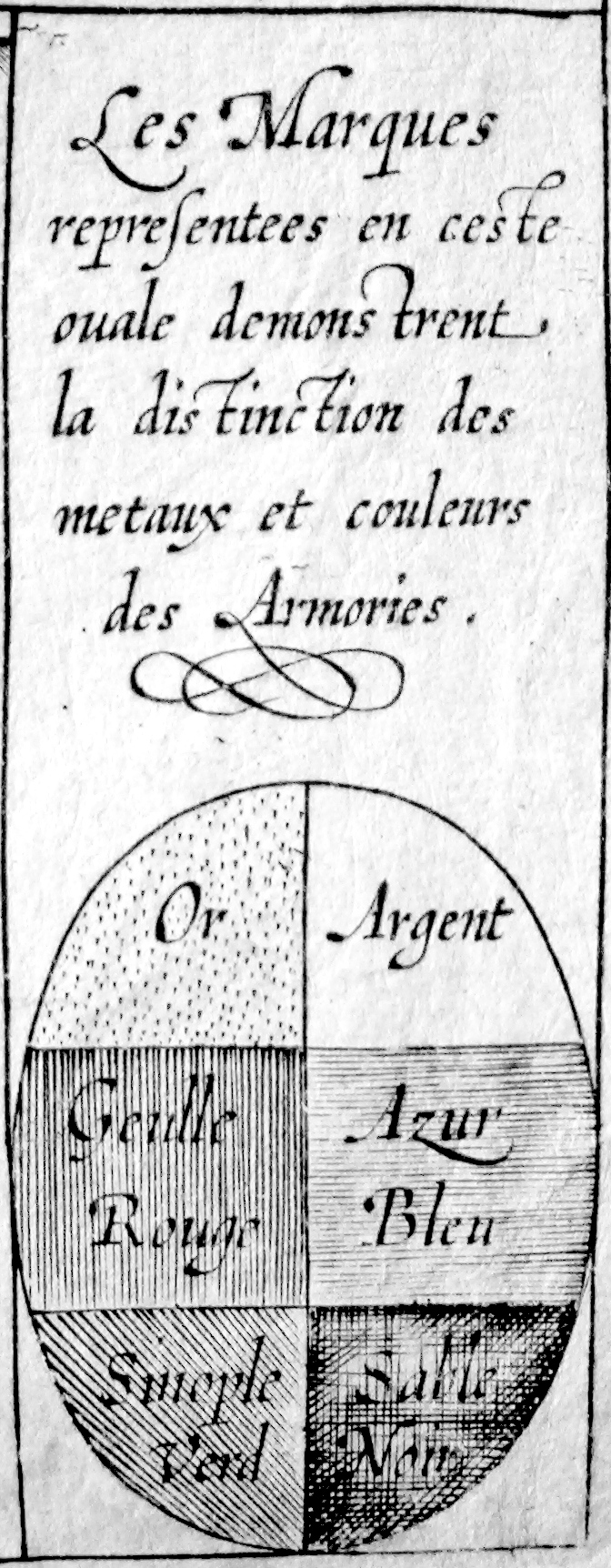 The hatching table of Zangrius from his armorial chart. Part of Jean Baptiste Zangre, Representation de l’Ancienne et Souveraine Duche de Brabant. Louvain, 1600.